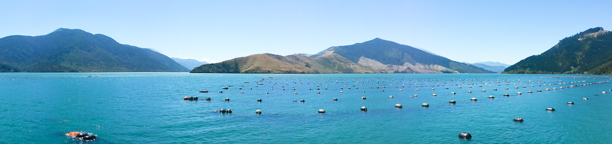 A New Zealand Green Lipped Mussel Farm near Havelock, South Island, New Zealand